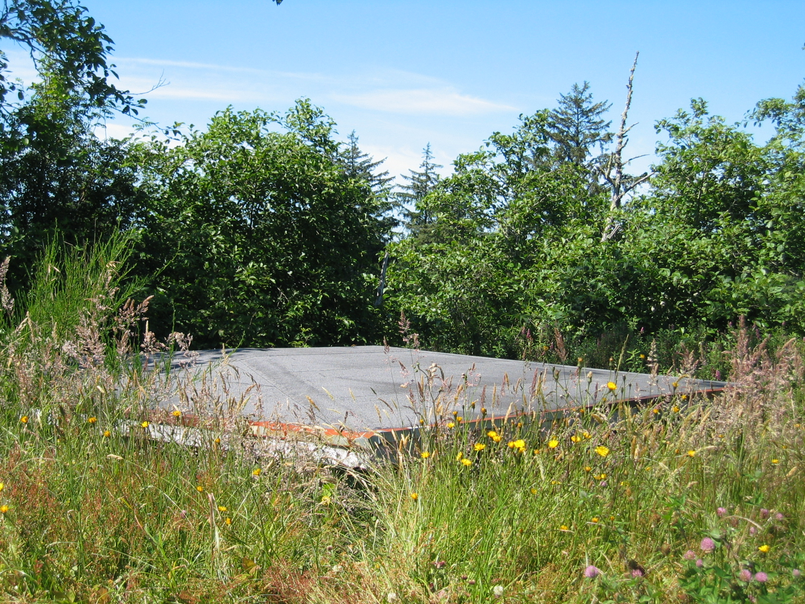 Bunker at Fort Stevens (Oregon)